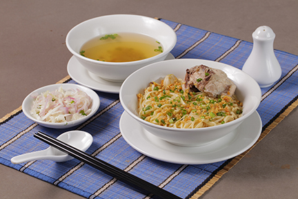 Best food in town!!!